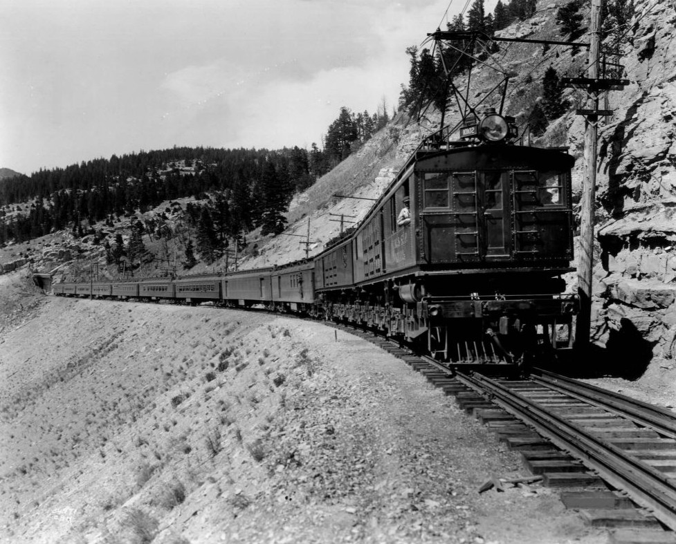 The Milwaukee Road train The Olympian pulled by an electric locomotive in Montana Canyon, Montana.